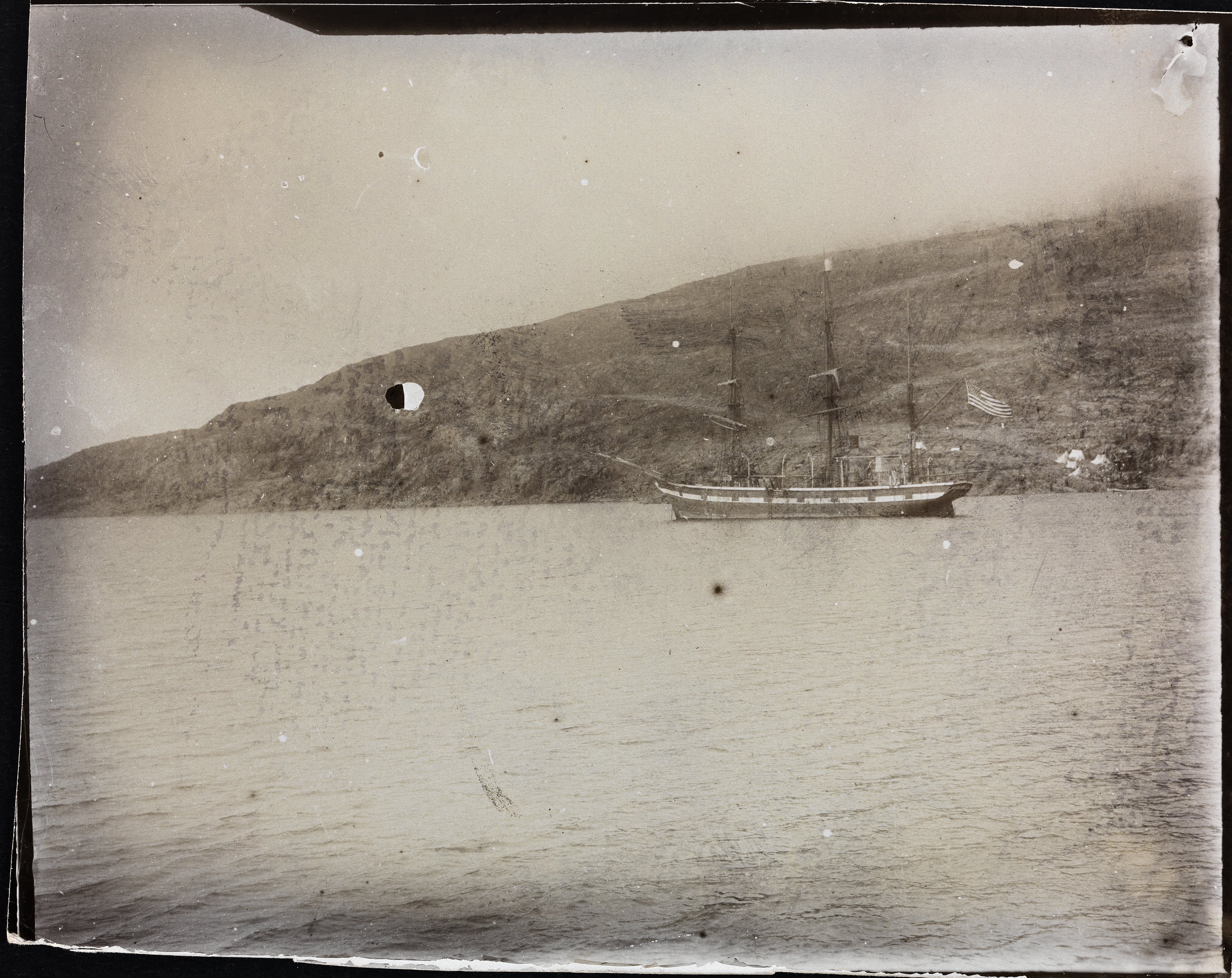 Beskrivelse / Description: Robert Peary and his crew were trying to reach the North Pole. 2. Fram-ekspedisjon: Nord-vest-Grønland og øyene nord for Øst-Canada : 1898-1902 / 2nd "Fram" expedition : Northwest Greeland and the islands North of East Canada Dato / Date: august 1899 Sted / Place: Grønland, Foulkefjord / Greenland, Foulke fiord Fotograf / Photographer: ukjent / unknown Digital kopi av original / Digital copy of original: s/h papirpositiv Eier / Owner Institution: Nasjonalbiblioteket / National Library of Norway Lenke / Link: Bildesignatur / Image Number: bldsa_SVpos_0046